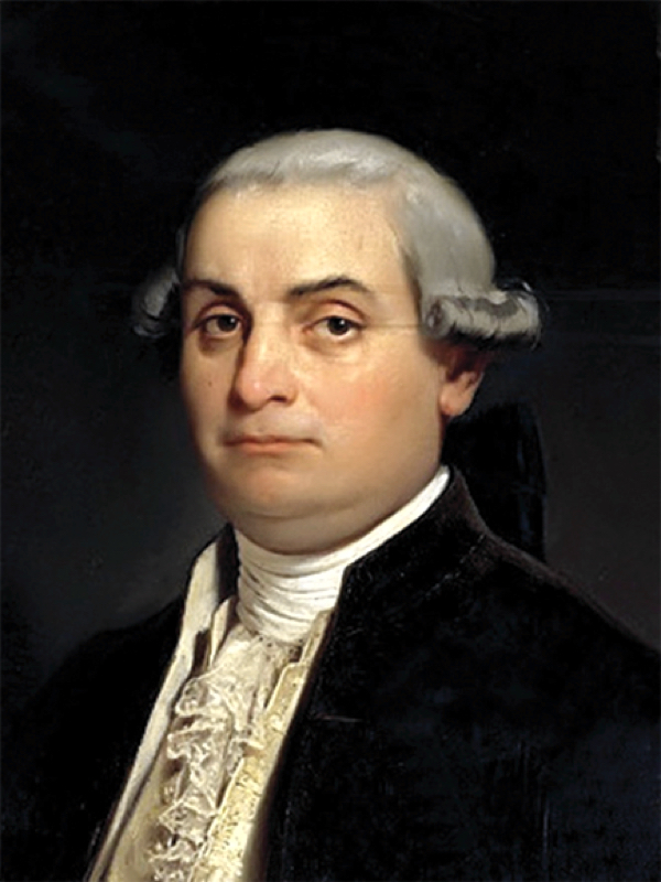 Cesare Beccaria (1738-1794), father of classical criminal theory